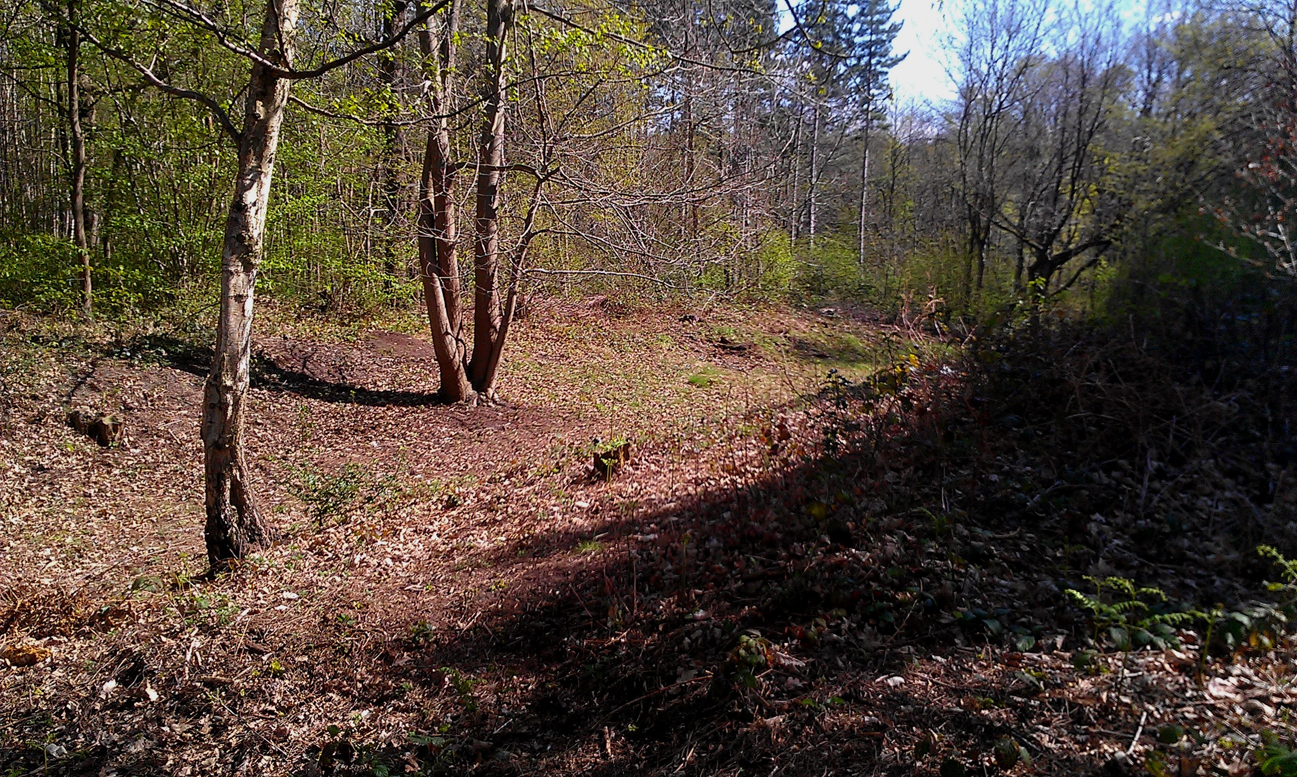 The Anglo-Saxon faestendic in Joyden's Wood, Kent.